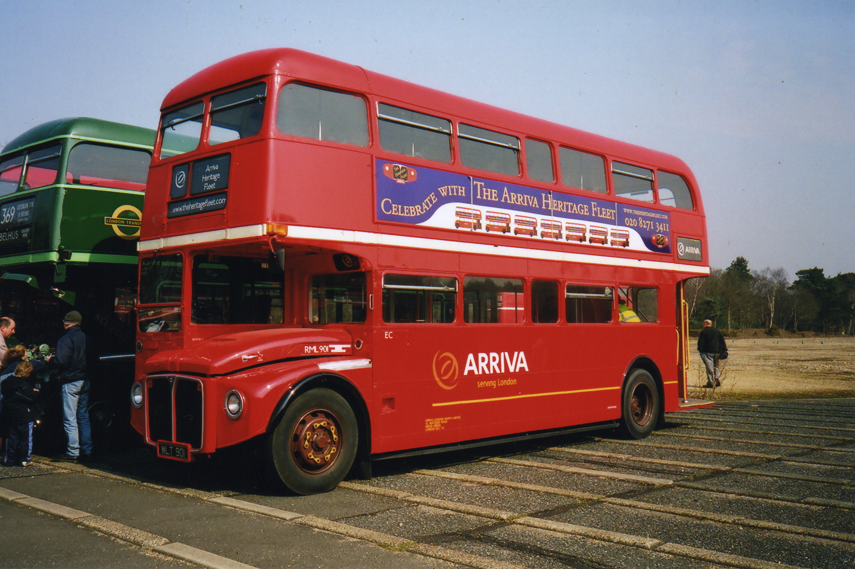 Arriva Heritage Fleet Routemaster bus RML901 (reg. WLT 901), pictured at the 2007 Cobham bus rally at Longcross, Surrey.